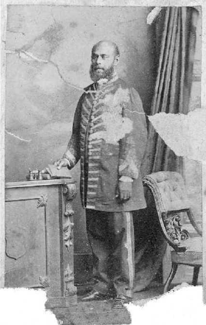 Tēvita ʻUnga (c. 1824 – 18 December 1879) was the first Crown Prince and Prime Minister of Tonga.